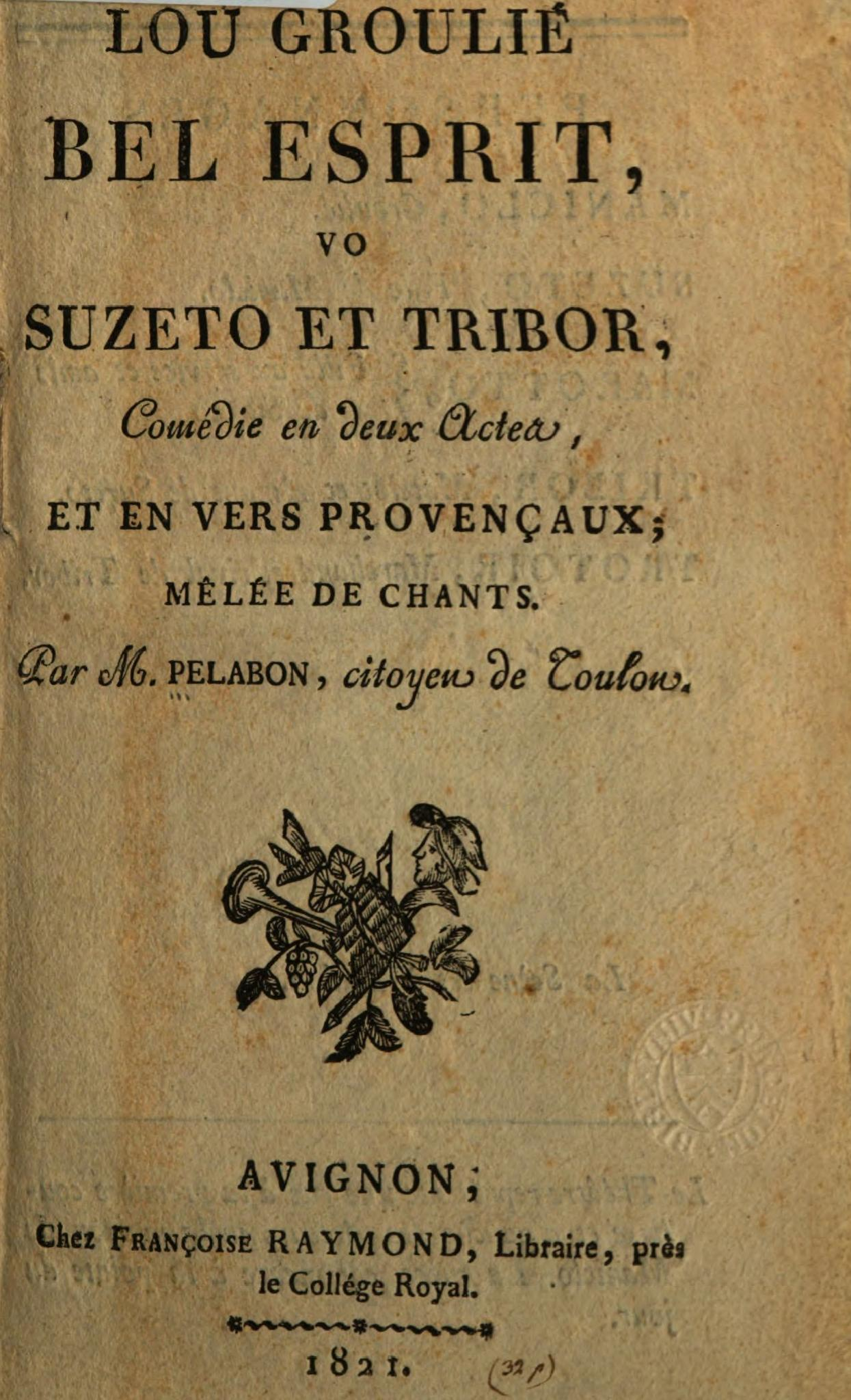 XVIII edition of an occitan play